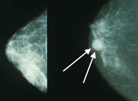 Modified version of File:Mammo_breast_cancer.jpg with arrows pointing to breast Ca